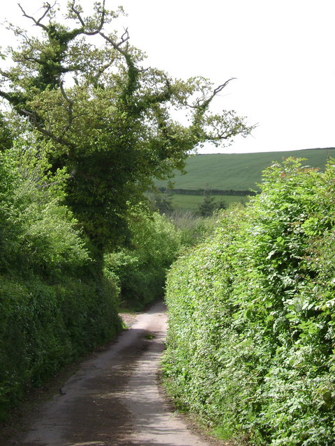 Stag-headed oak by the lane to Hamblecombe Barton